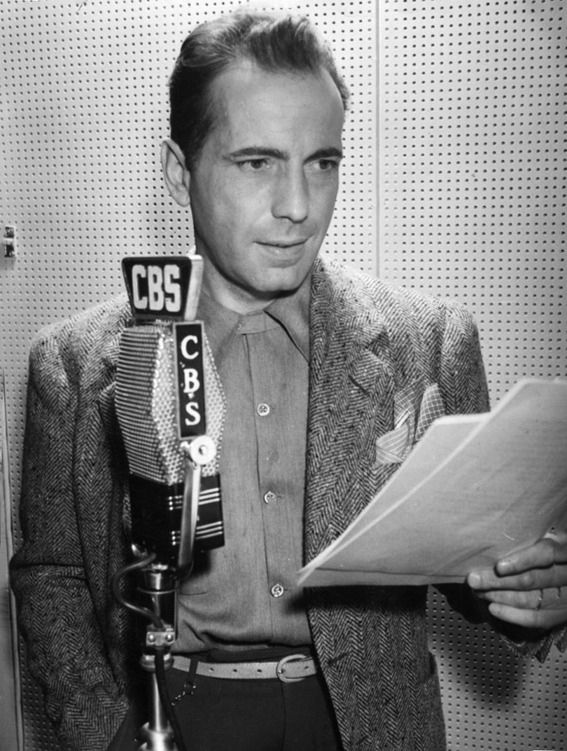 Photo of Humphrey Bogart as he played a role on Suspense (radio drama).